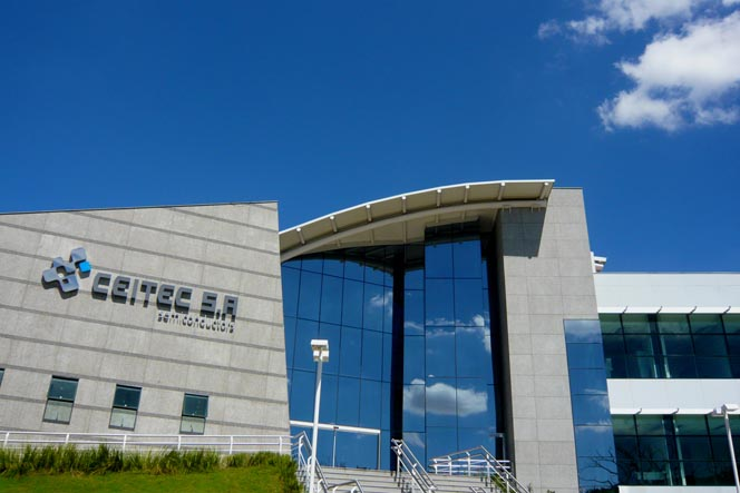 Ceitec Building